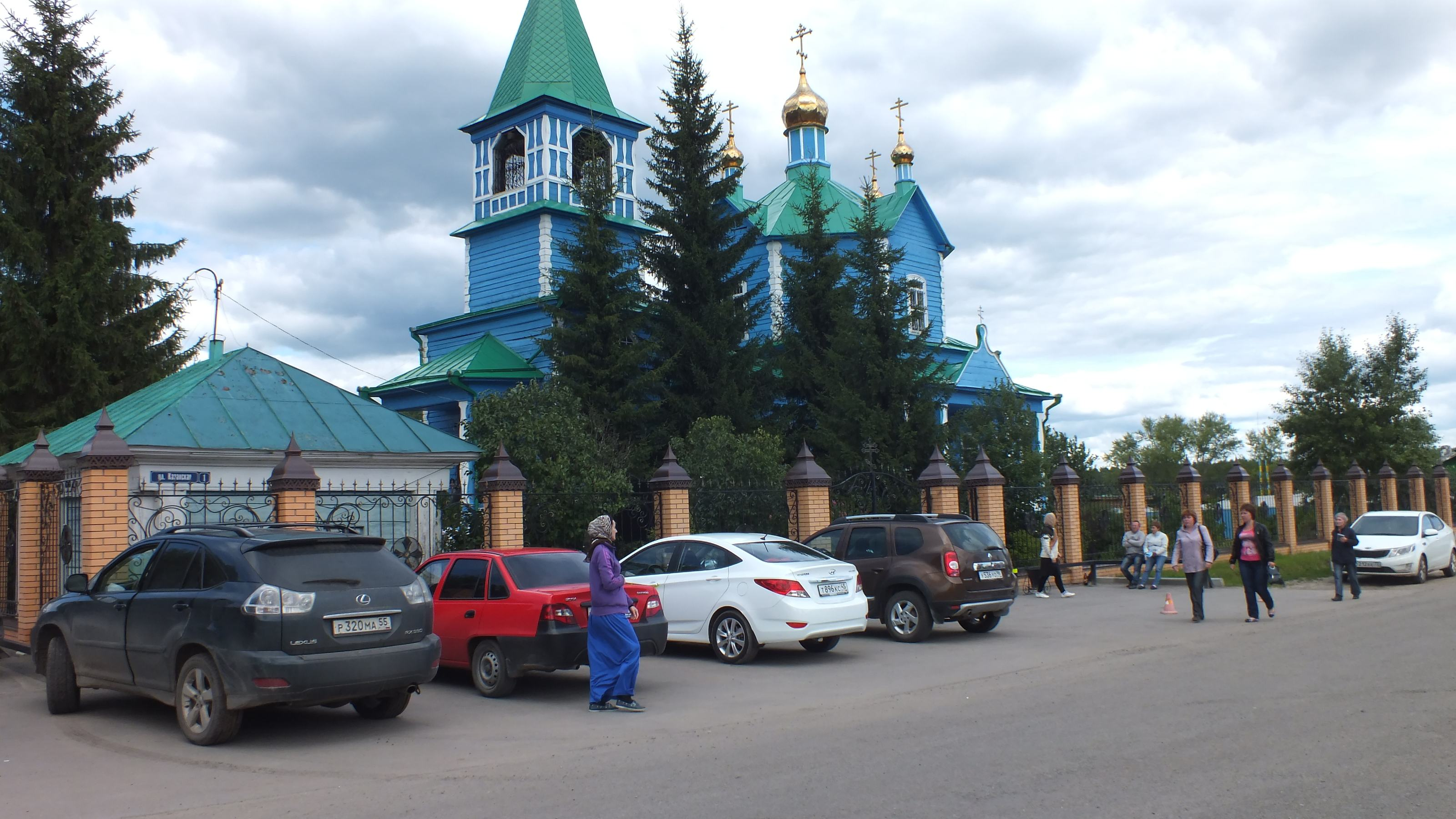 Church of the Kazan Mother of God, Belozersky District, Kurgan Oblast, Russia